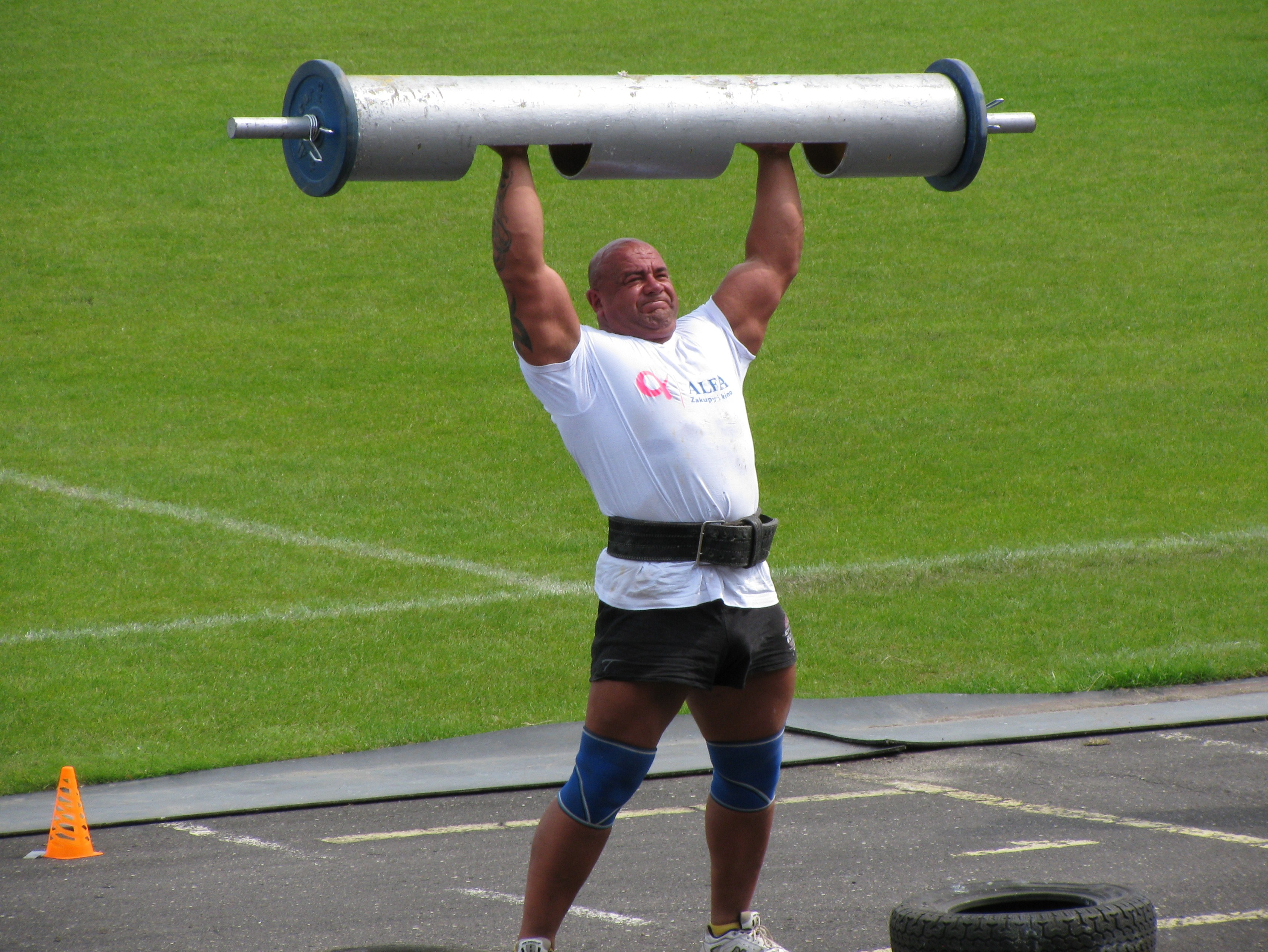 Ireneusz Kuraś - a strength athlete from Poland at the Log Lift.